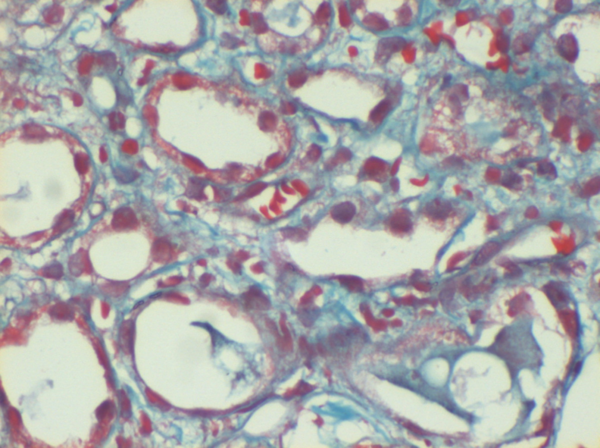 Dilated peri-tubular capillaries filled with sickled RBCs, original Gomori's trichrome stain, × 400. Kanodia et al. Diagnostic Pathology 2008 3:9